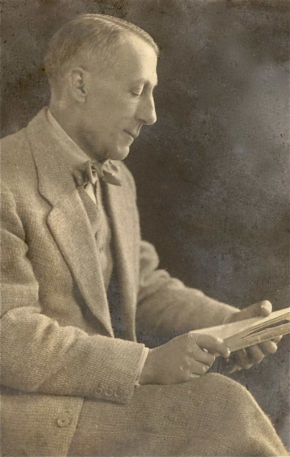 One of a series of studio photographs of Martin Shaw taken for the fronspiece of his reminiscences Up to Now (1929) Oxford University Press, London OCLC 1377968